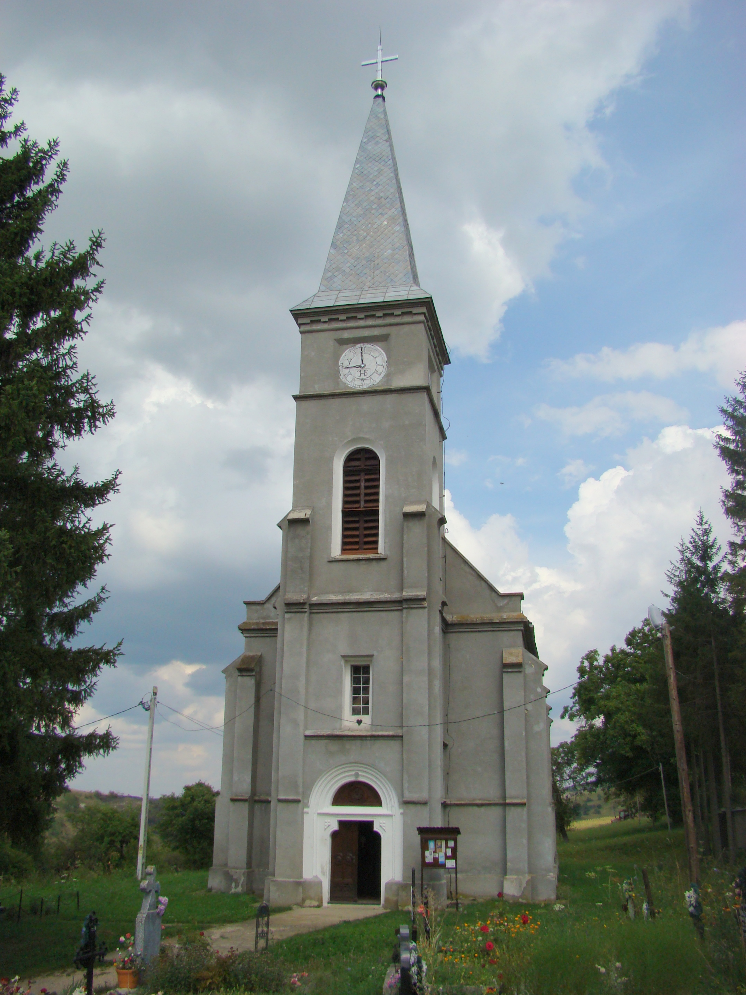 The roman-catholic church in Leghia, Cluj county, Romania